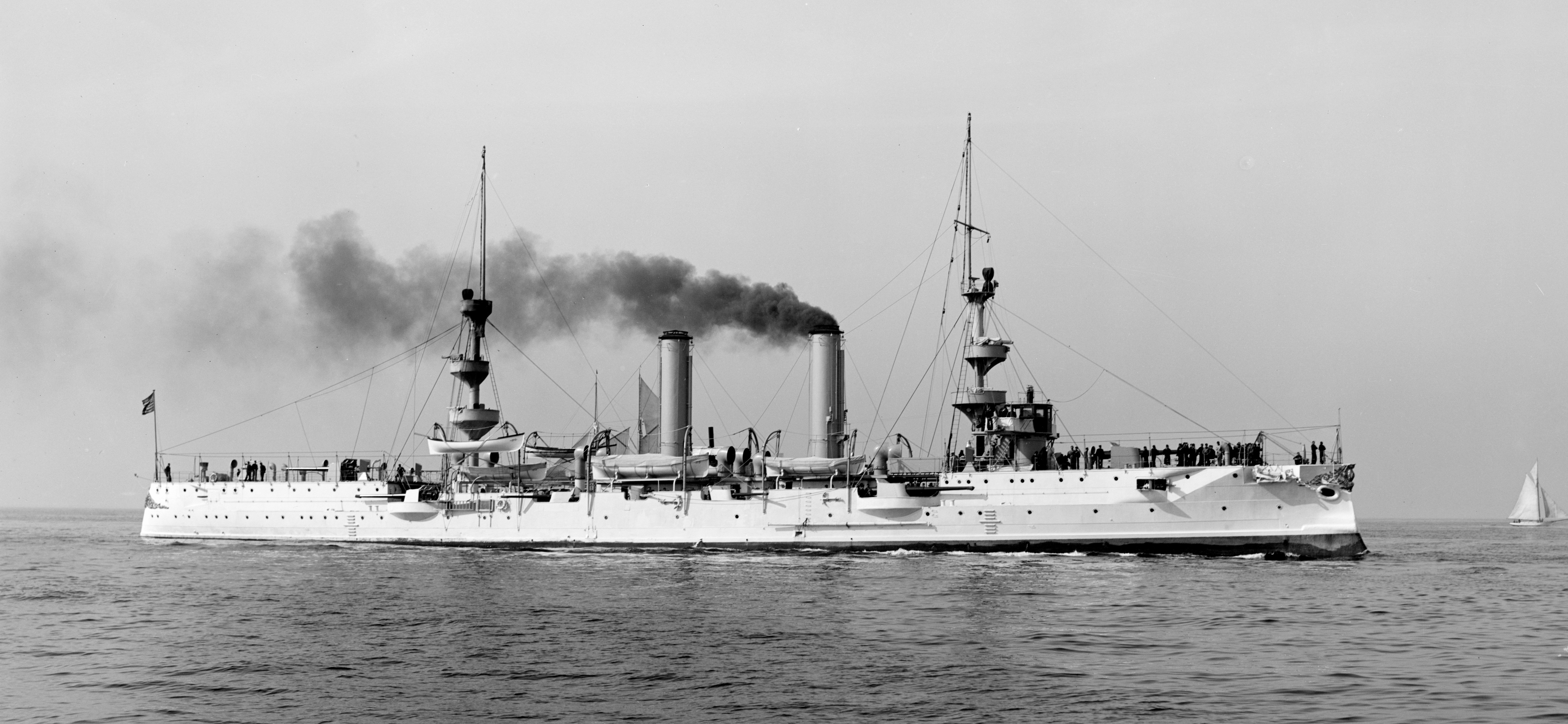 USS New Orleans (CL-22)